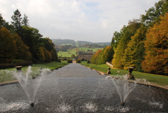 The Cascade in autumn This is the best way to see the Cascade - no people and autumn colour.